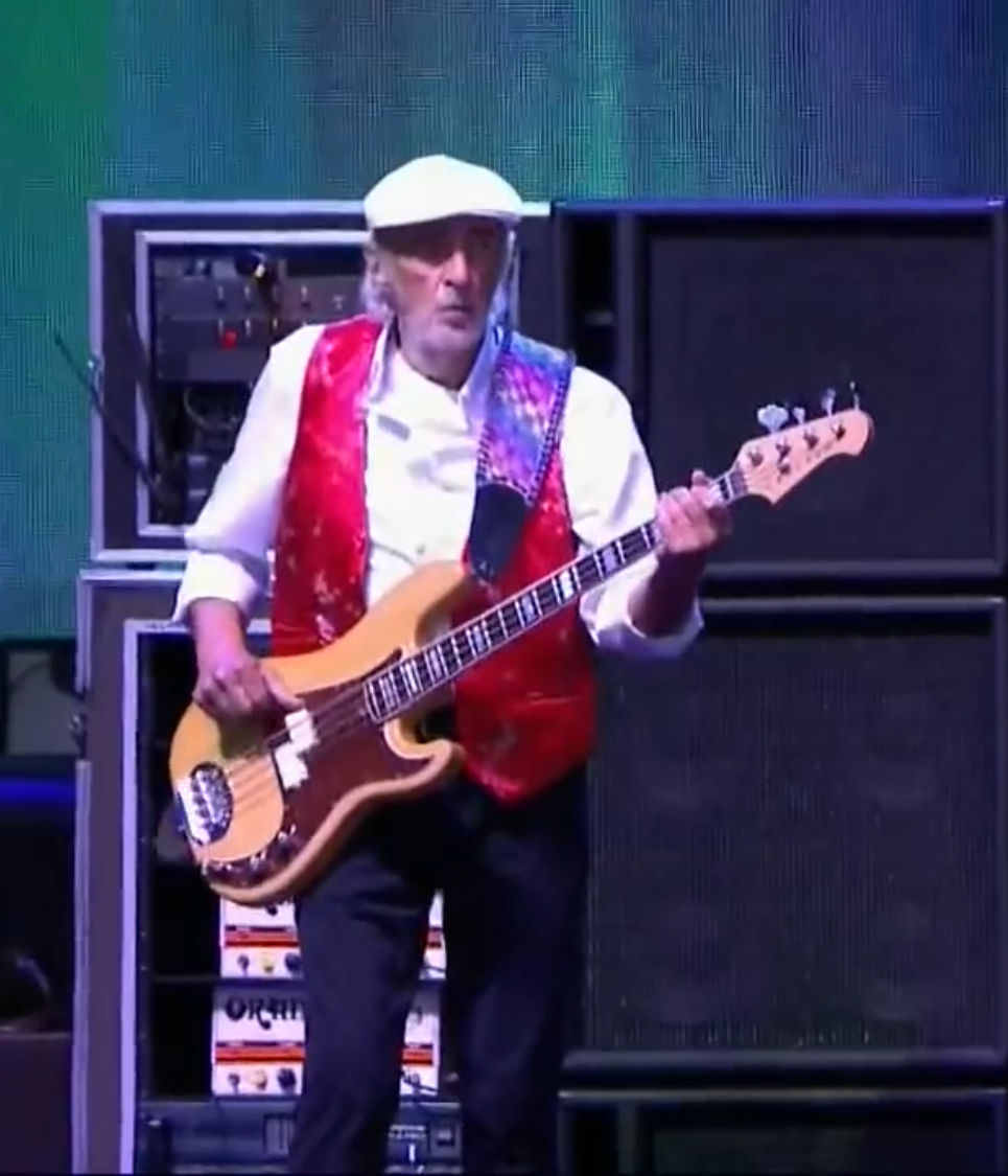 John McVie live with Fleetwood Mac